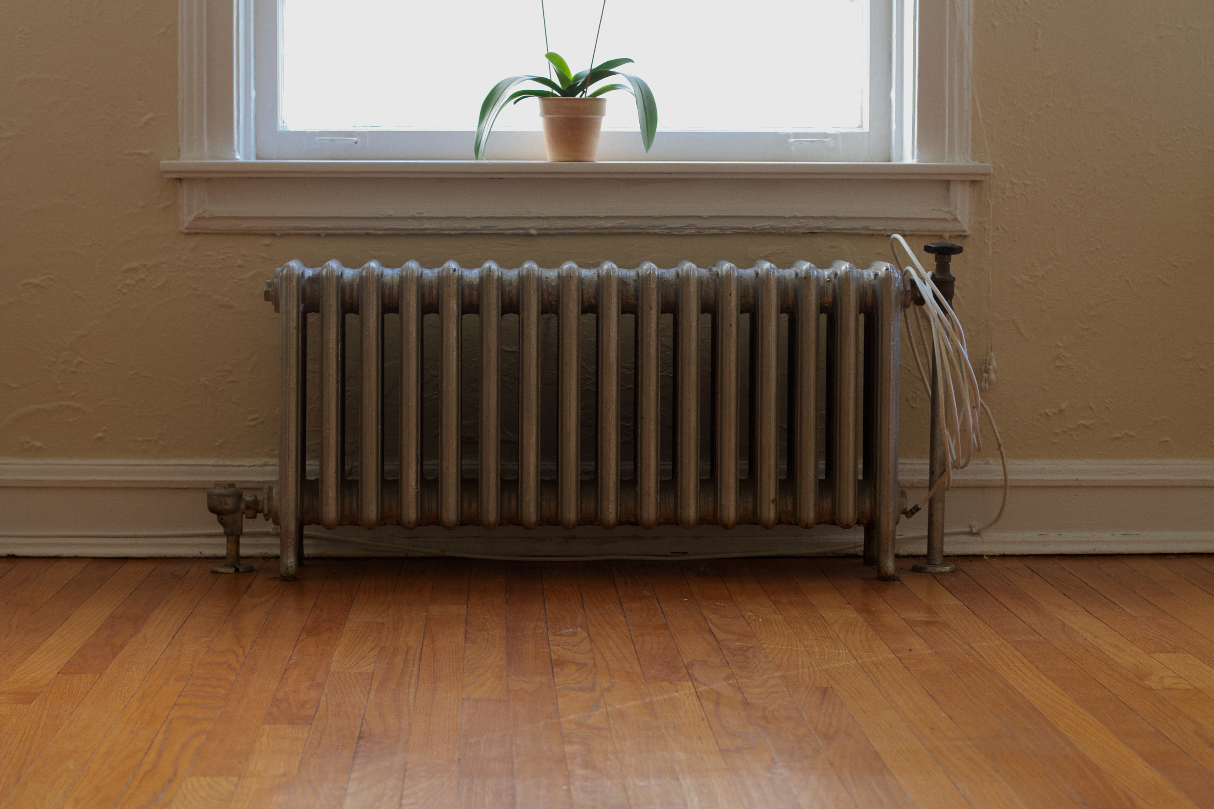 INside GNA's place